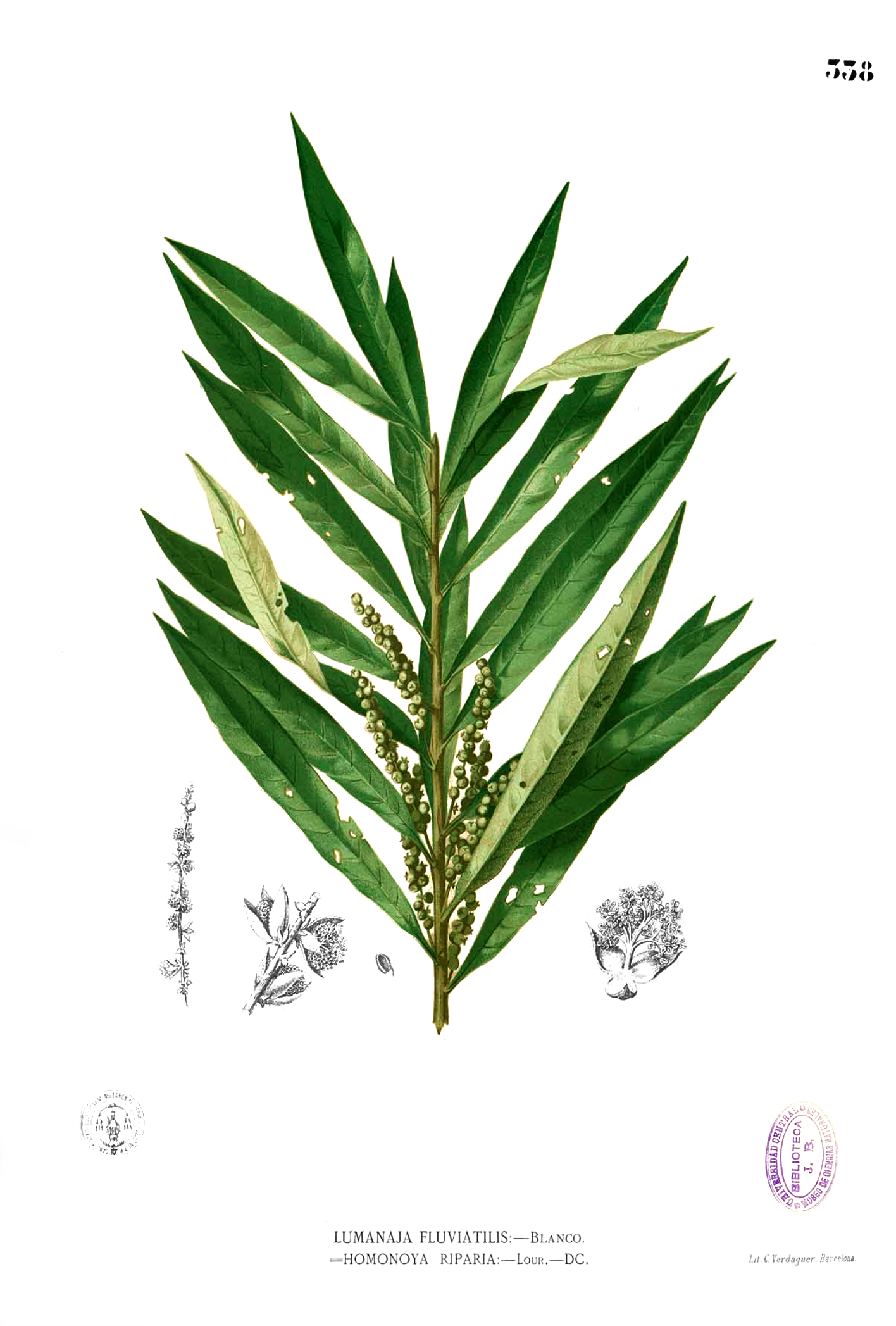 Homonoia riparia Plate from book